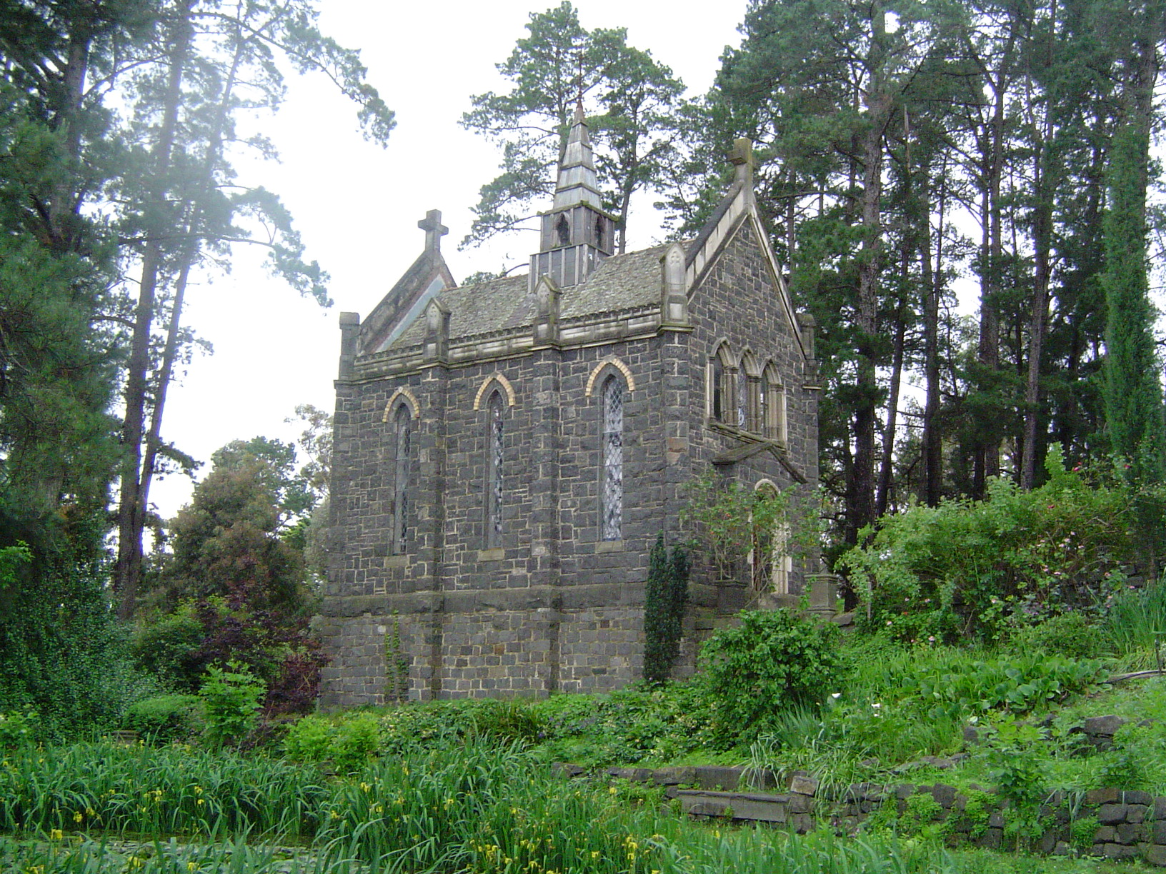 The Chapel at Montsalvat in 2004.